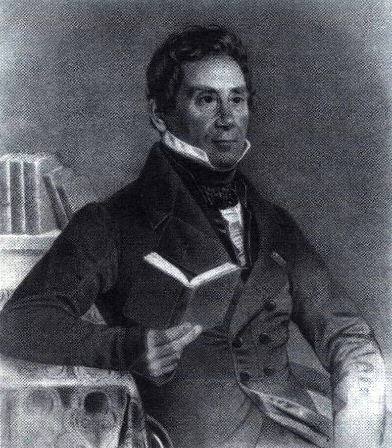 German politician